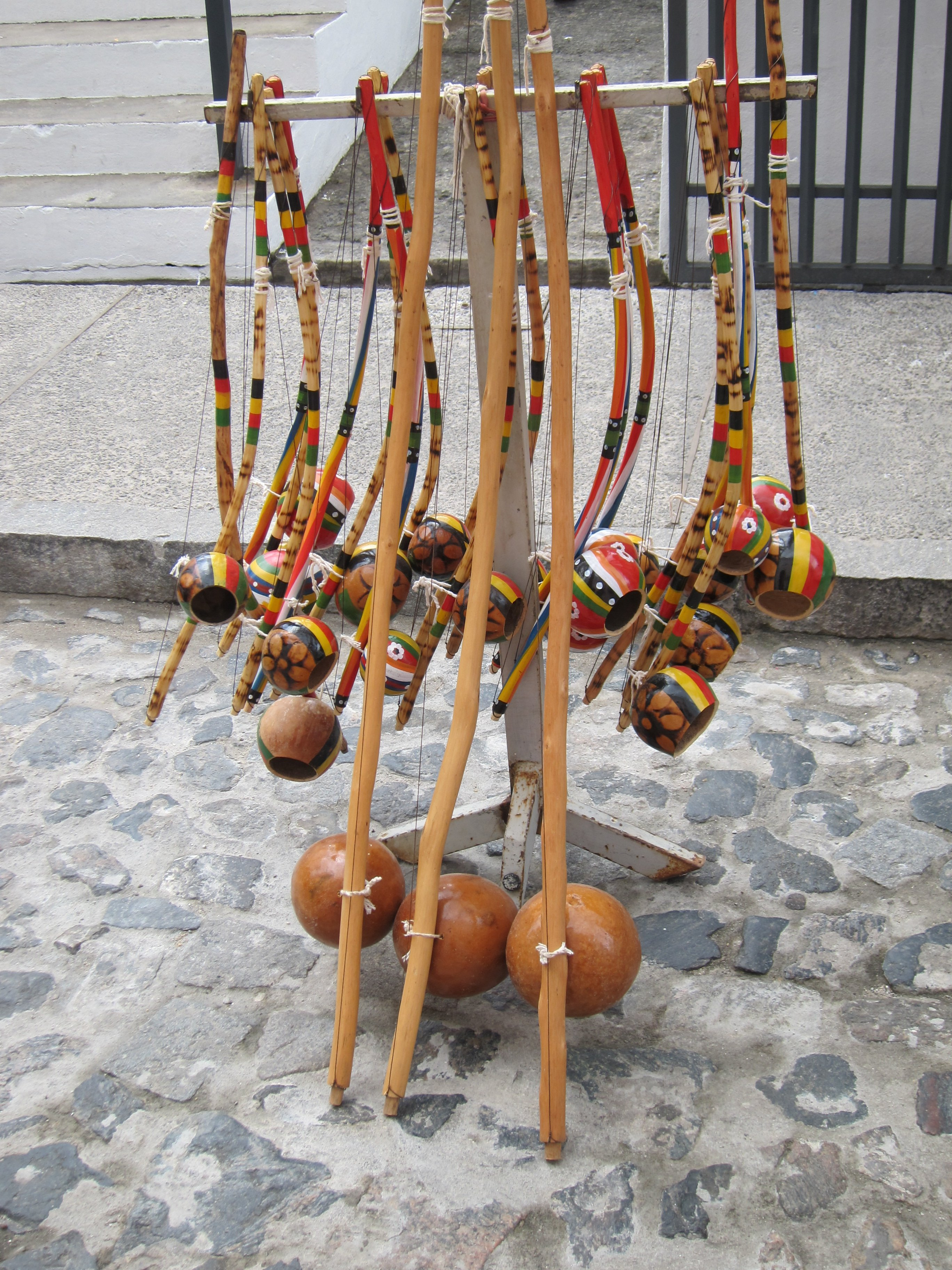 Berimbau being sold on the street in Salvador, state of Bahia, Brazil